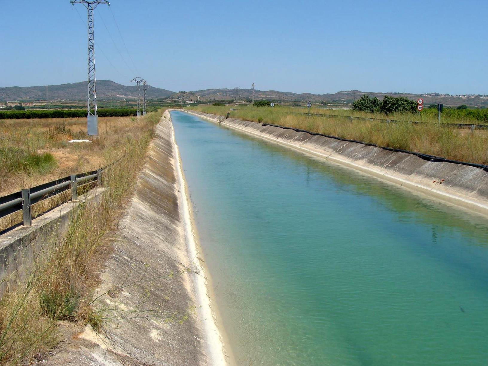 Channel Júcar - Turia for Irrigation purposes